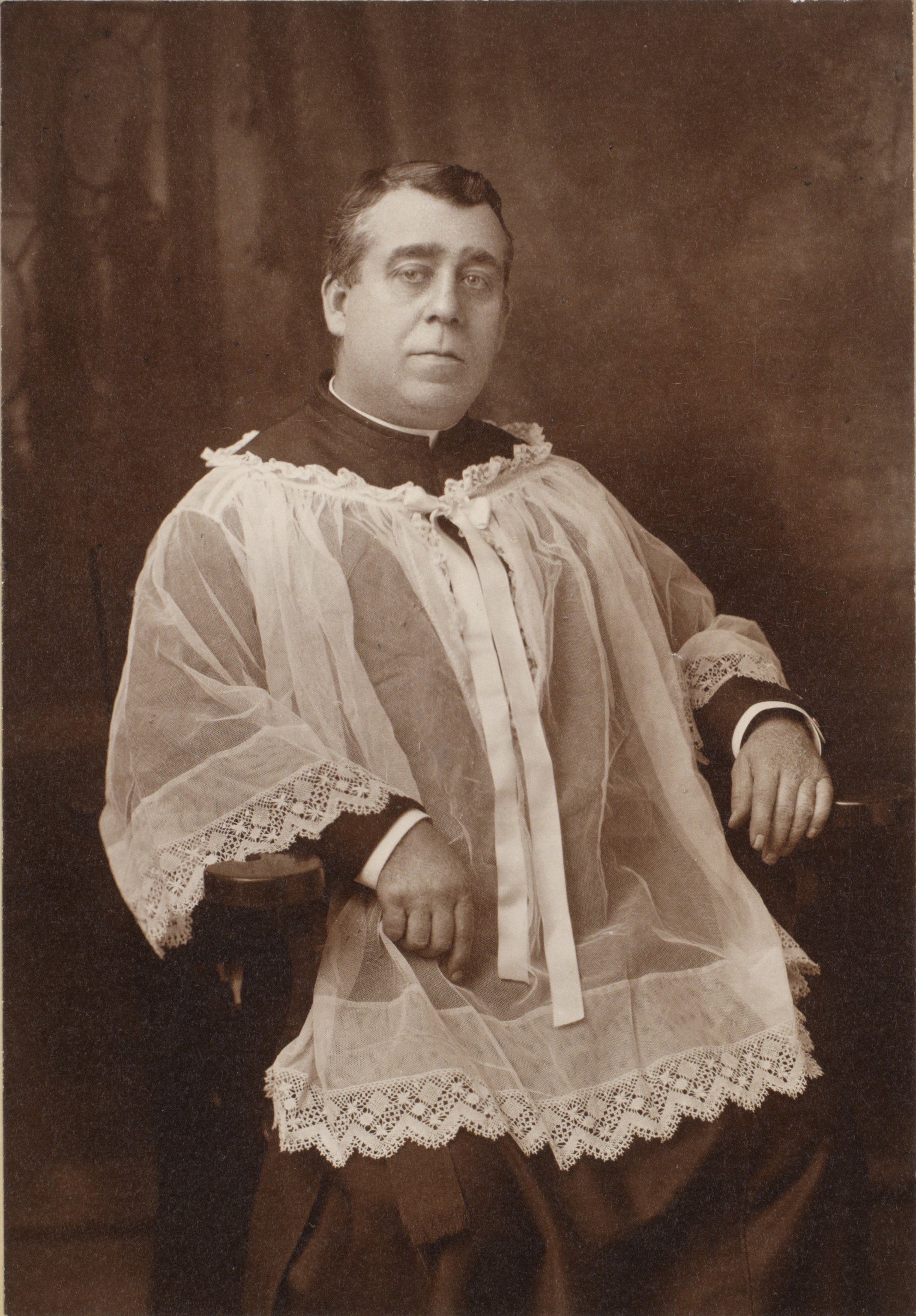 Formal photograph of the Rev. Thomas I. Gasson, S.J. seated.